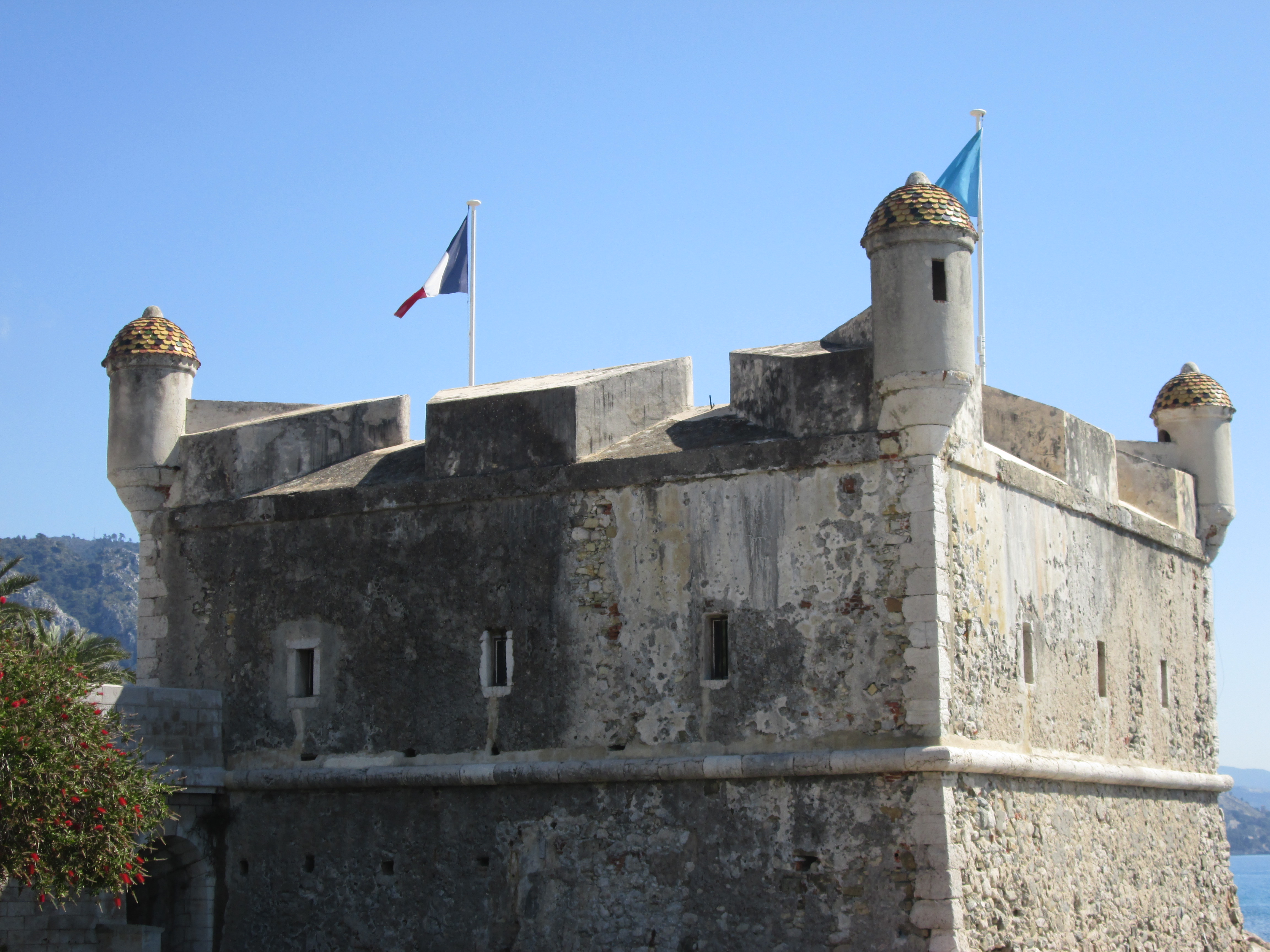 The Bastion in Menton, France